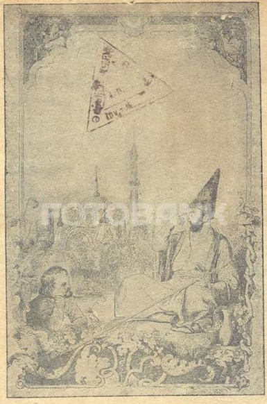 Vazeh and Bodenstedt. Illustration for «Tausend und ein Tag im Orient» (1850)